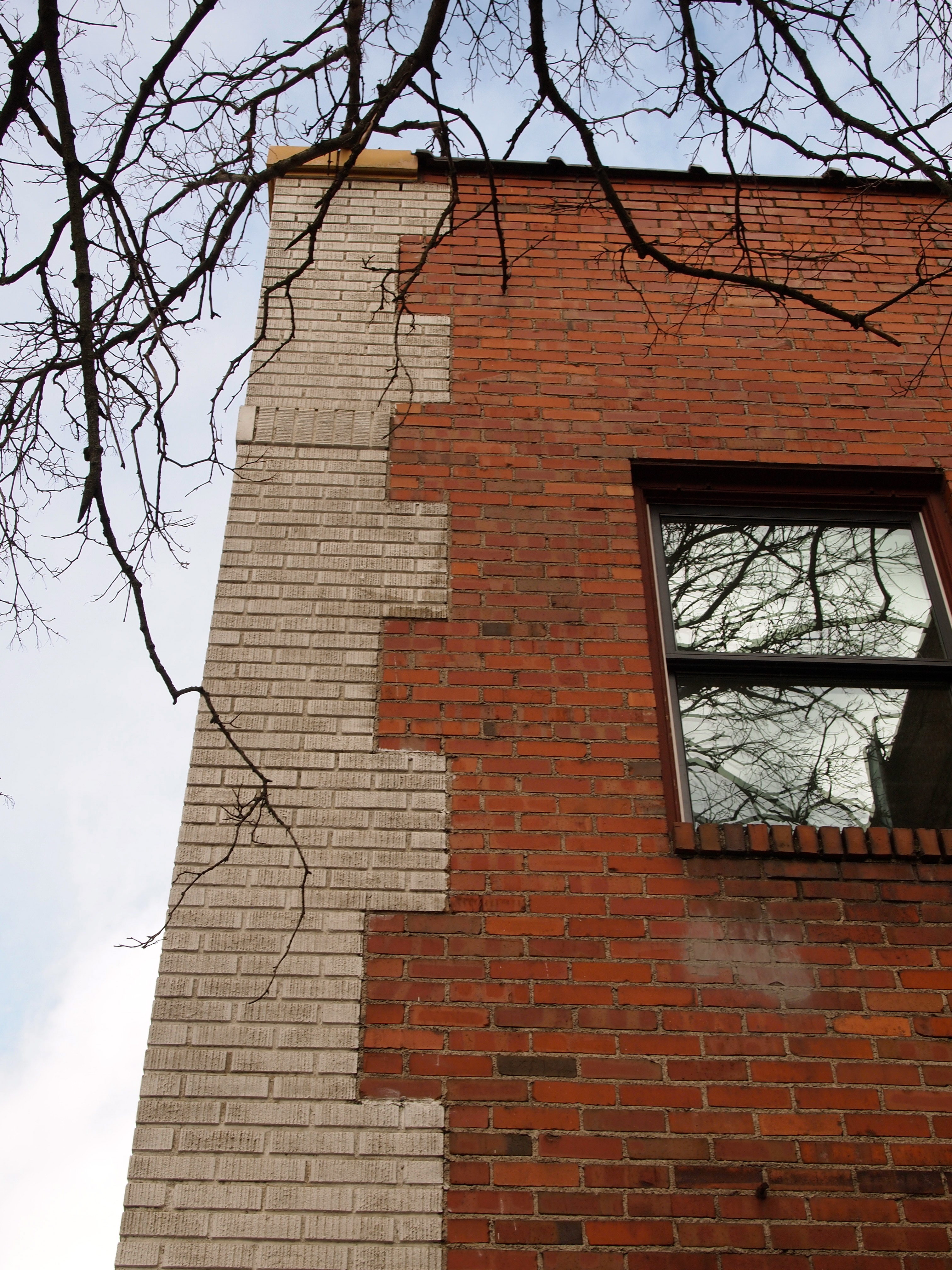 Architecture, Historic Preservation